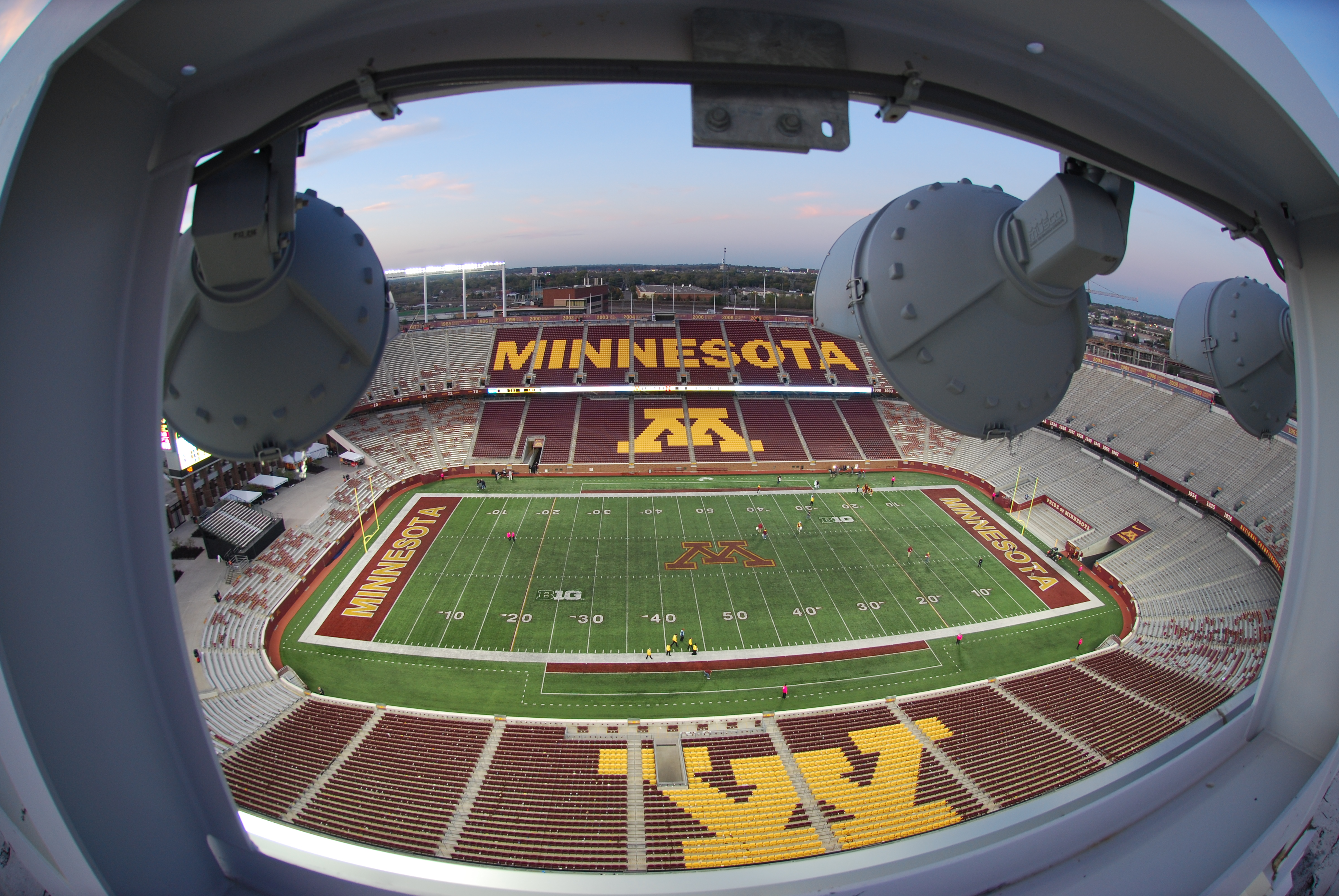 View of the field from the home side on the main light bank on the roof of the press gallery